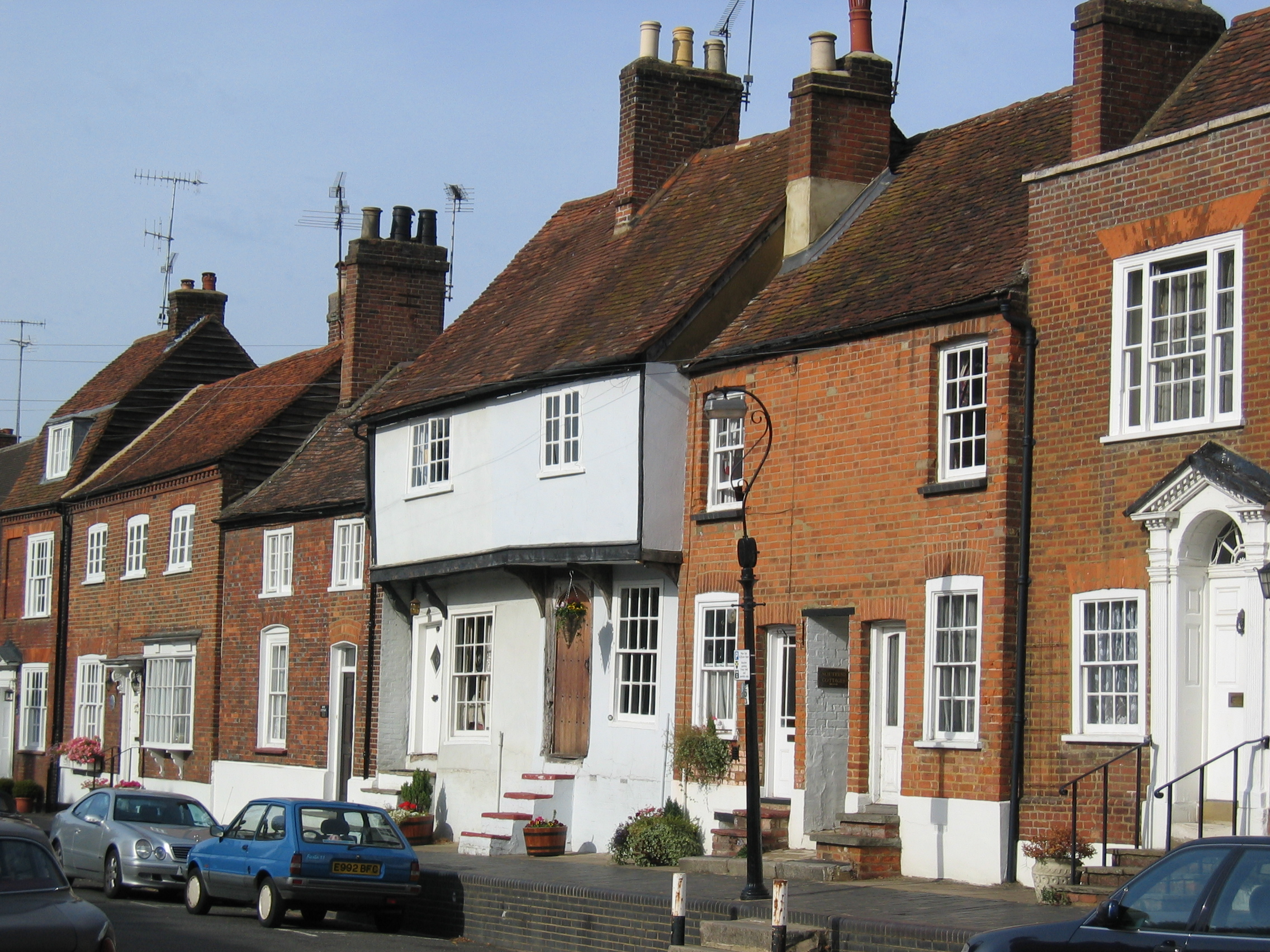 Houses in Fishpool Street, St Albans, Hertfordshire, England.